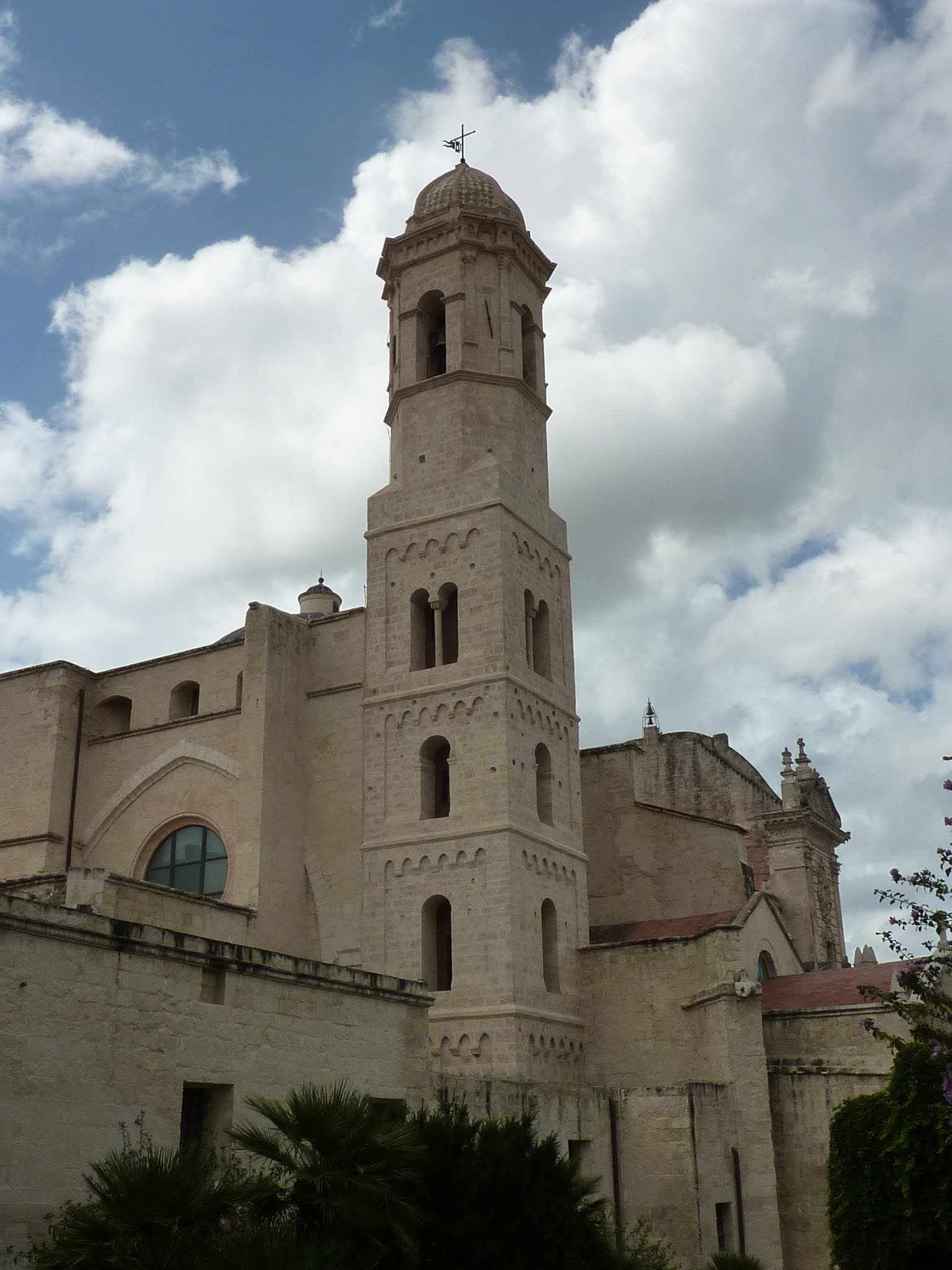 Campanile of the cathedral San Nicola, Sassari